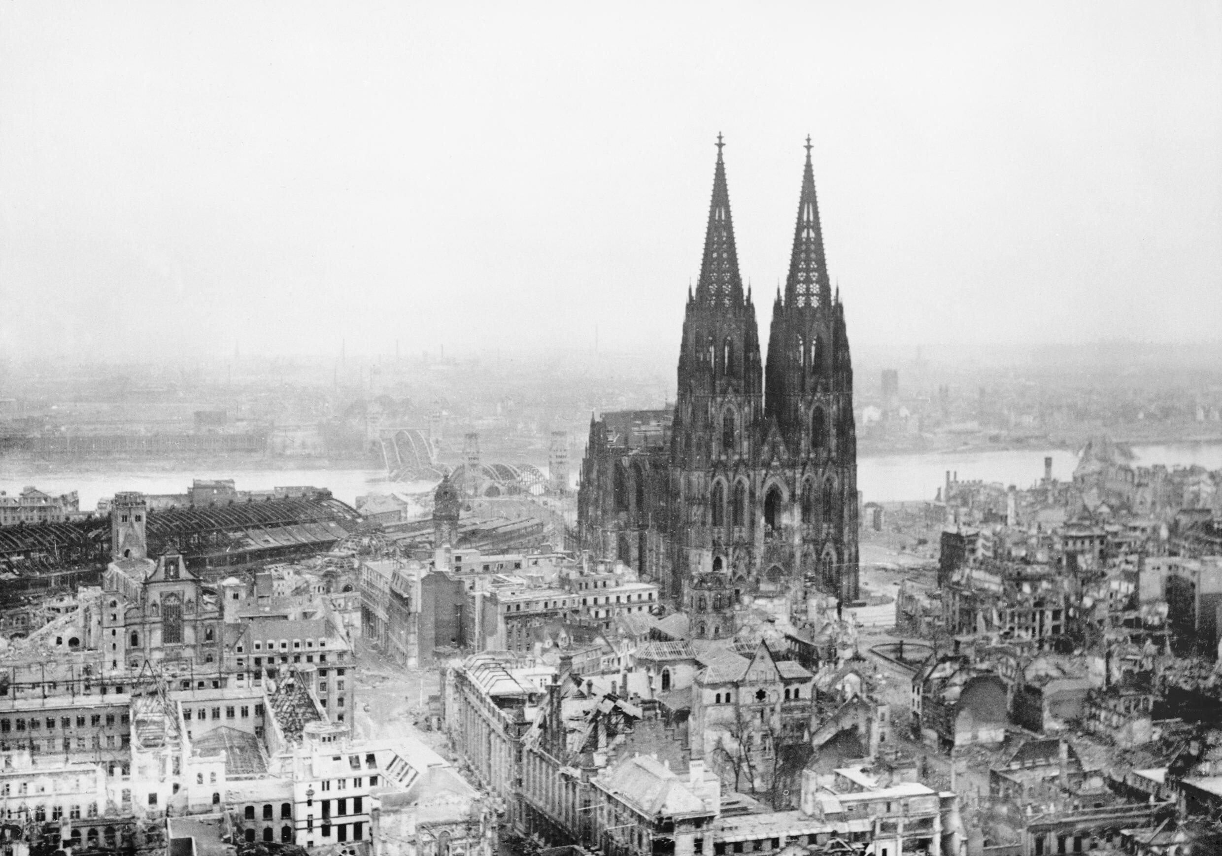 Cologne Cathedral stands intact amidst the destruction caused by Allied air raids, 9 March 1945. Aerial oblique view of destroyed buildings in Cologne, Germany, caused by RAF Bomber Command raids on 9 March 1945.